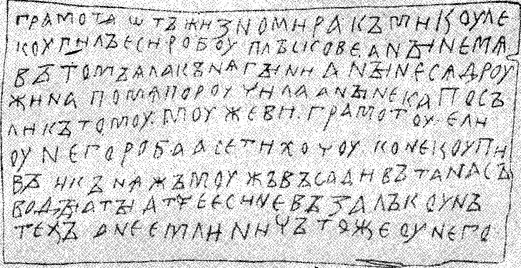 Tracing of an eleventh-century Russian letter incised on birch bark. The language is the Old Novgorod dialect of the Old East Slavic language. The alphabet is ancient Cyrillic. About a thousand such birch-bark documents have been excavated in Novgorod, Russia, and some other historical towns since 1951. They have provided information not only on the vernacular language of the time, but also about the ways and mores of Russians at a time when the country was in the throes of being Christianized.